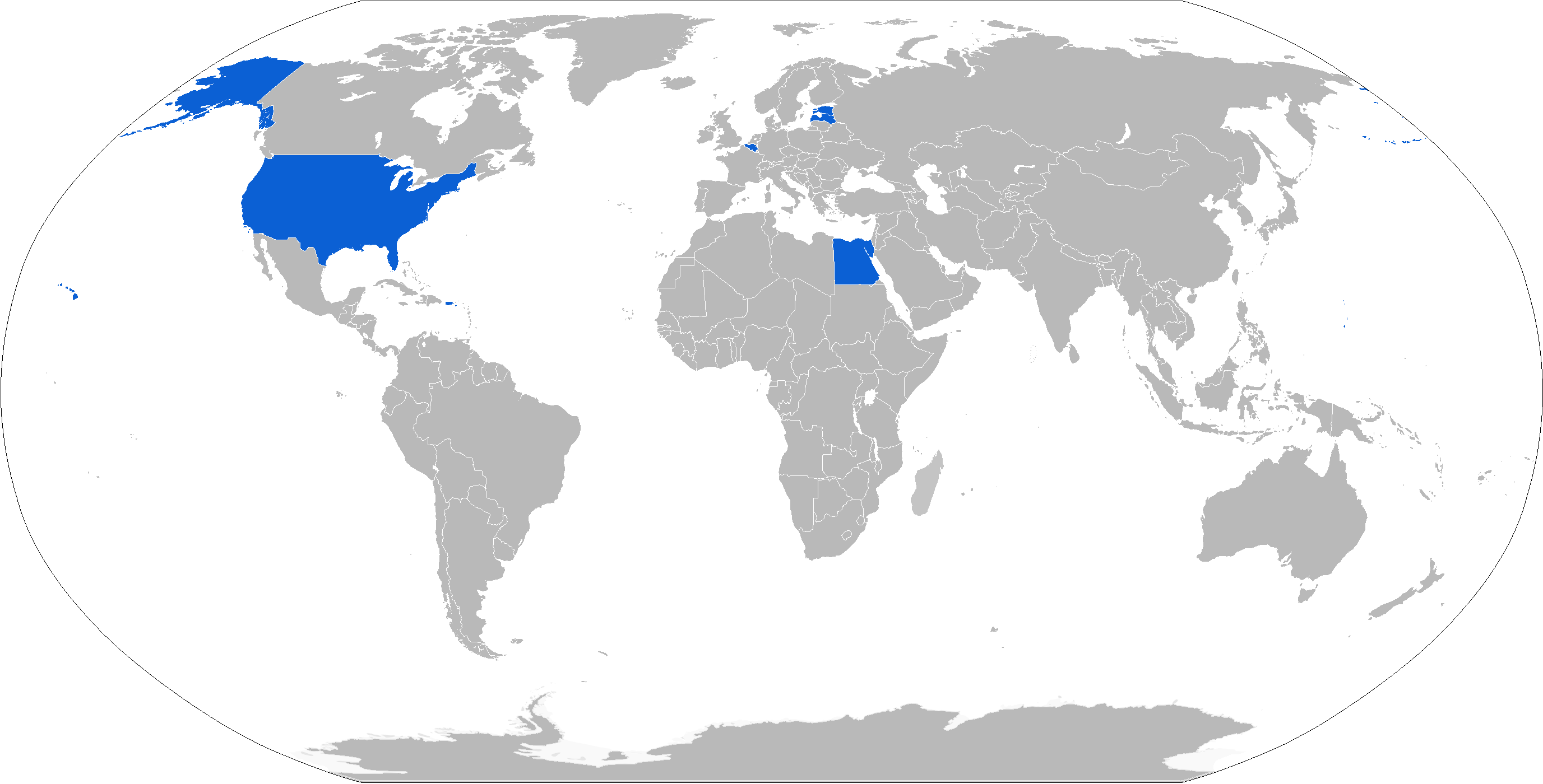 Map with RQ-20 operators in blue